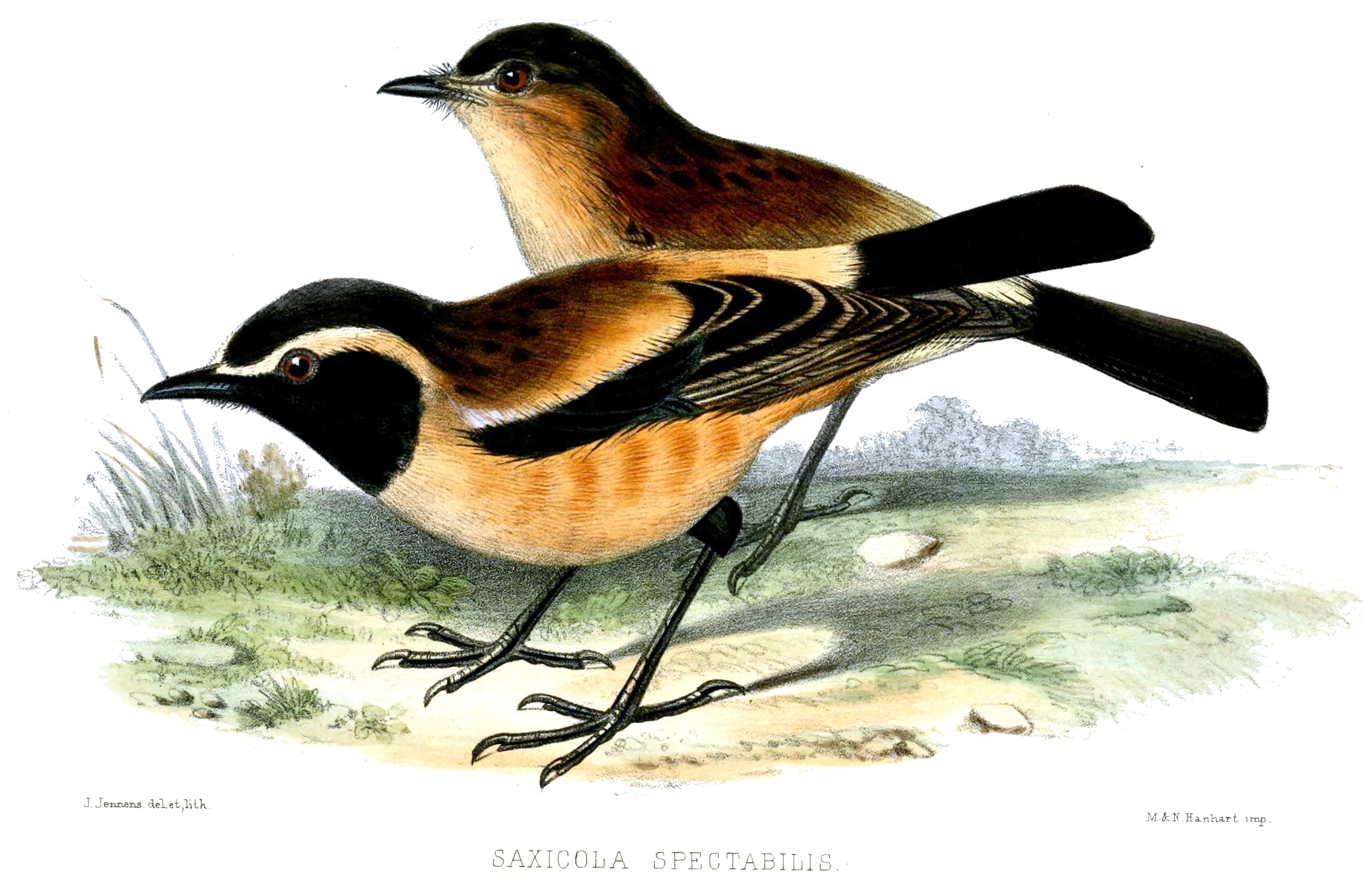 Buff-streaked Chat, adult (front) and immature (behind)